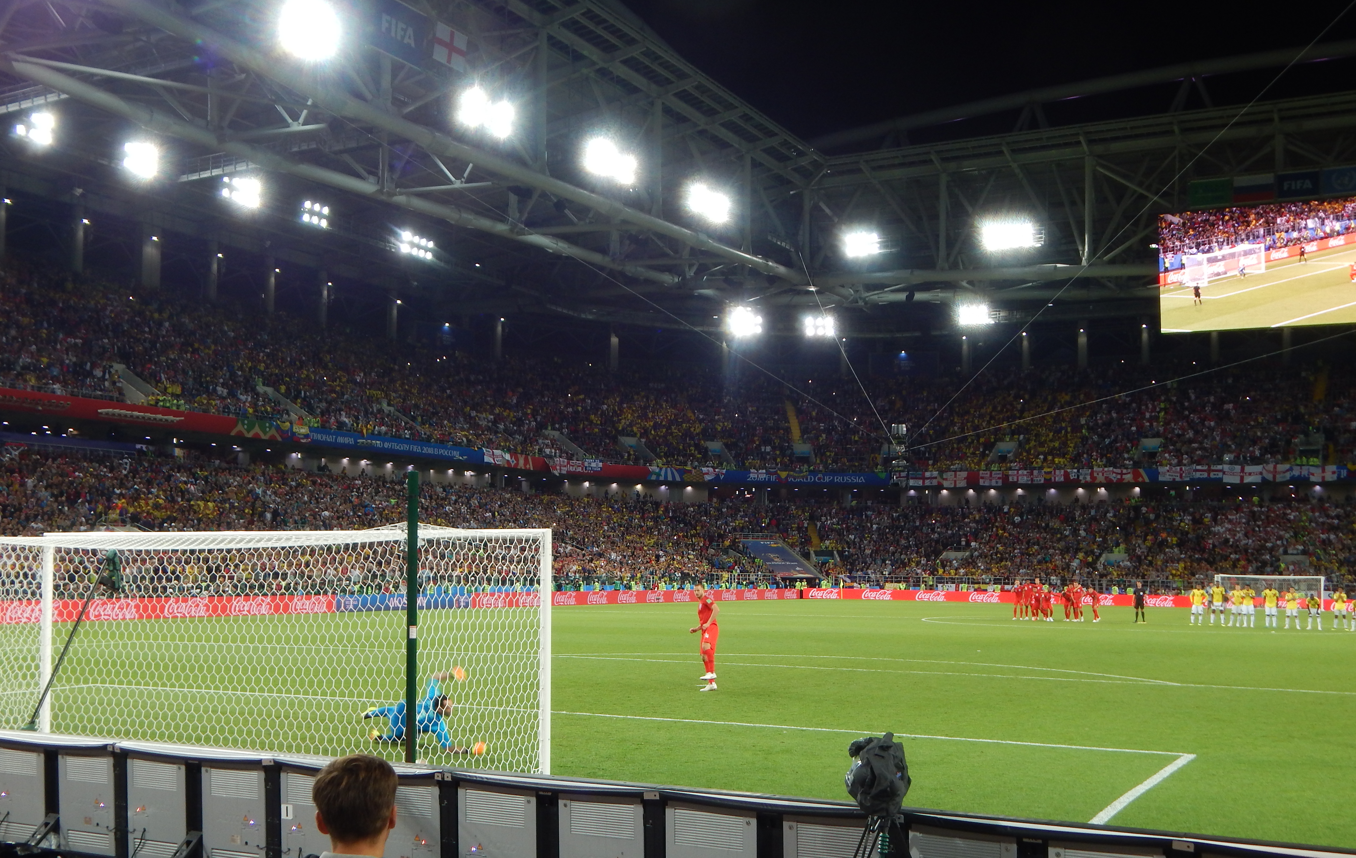 FIFA World Cup 2018, Round of 16, Colombia vs. England. Eric Dier scores the winning goal in England's first World Cup penalty shoot-out victory, having lost thrice before.